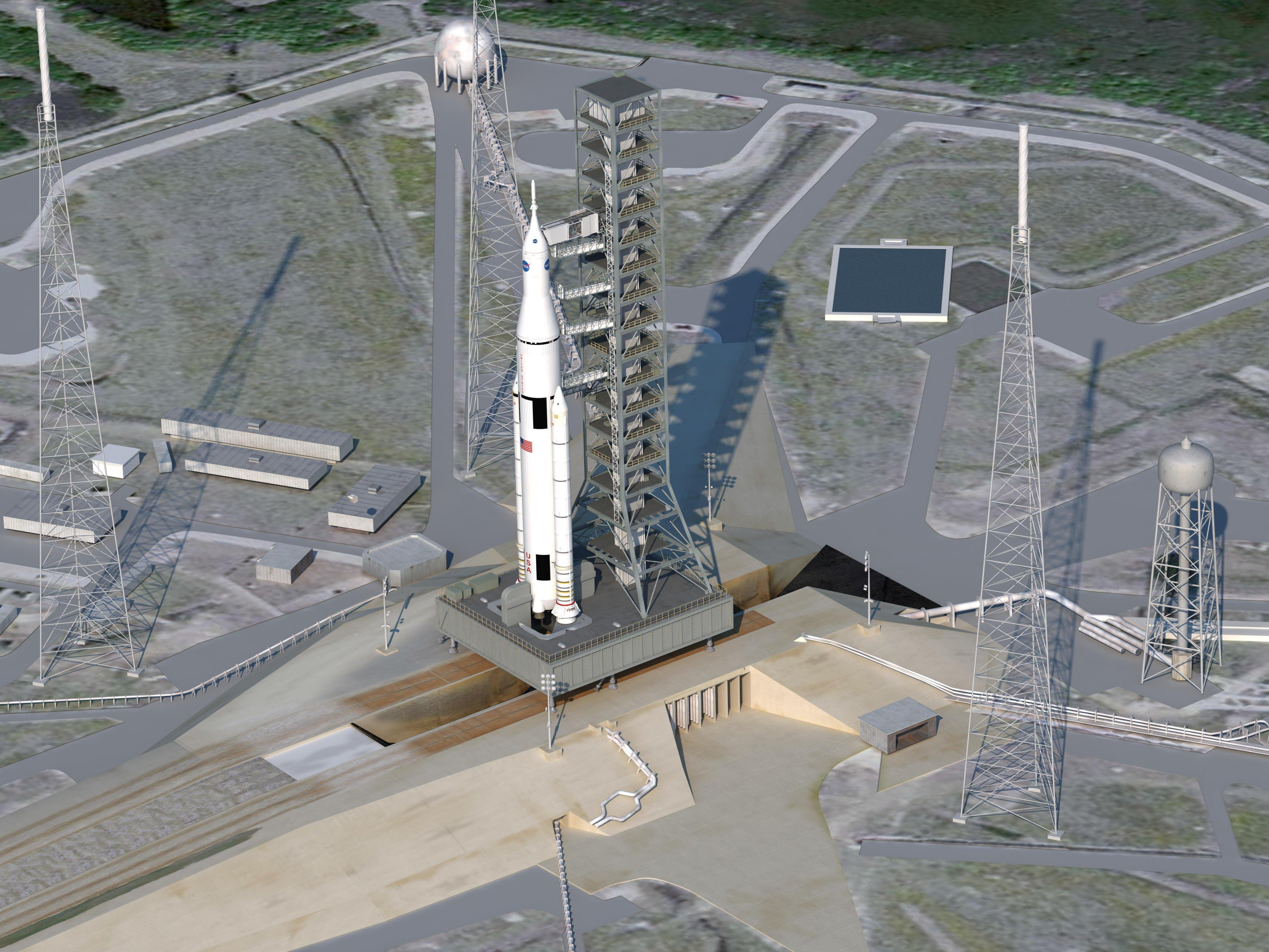 Artist Concept of SLS on Launchpad The Space Launch System, or SLS, will be designed to carry the Orion Multi-Purpose Crew Vehicle, as well as important cargo, equipment and science experiments to Earth's orbit and destinations beyond. Additionally, the SLS will serve as a back up for commercial and international partner transportation services to the International Space Station.